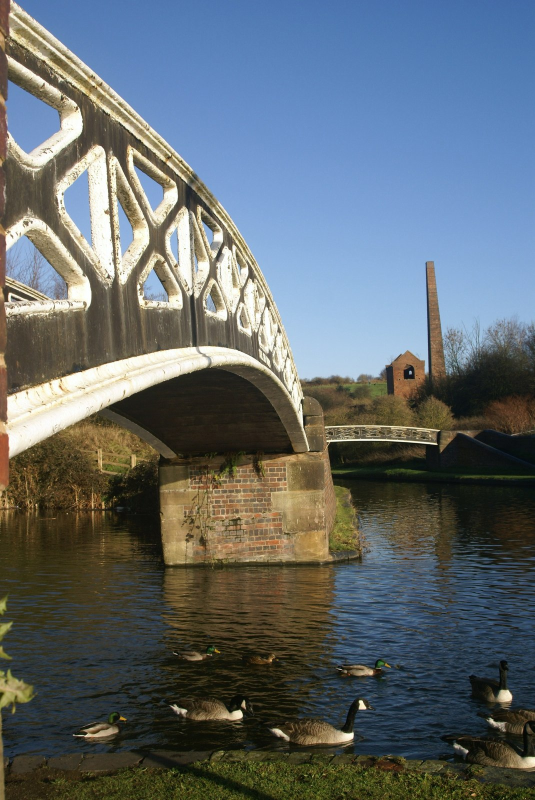 Bumble Hole, Dudley, West Midlands A canal junction, where two Dudley canals meet